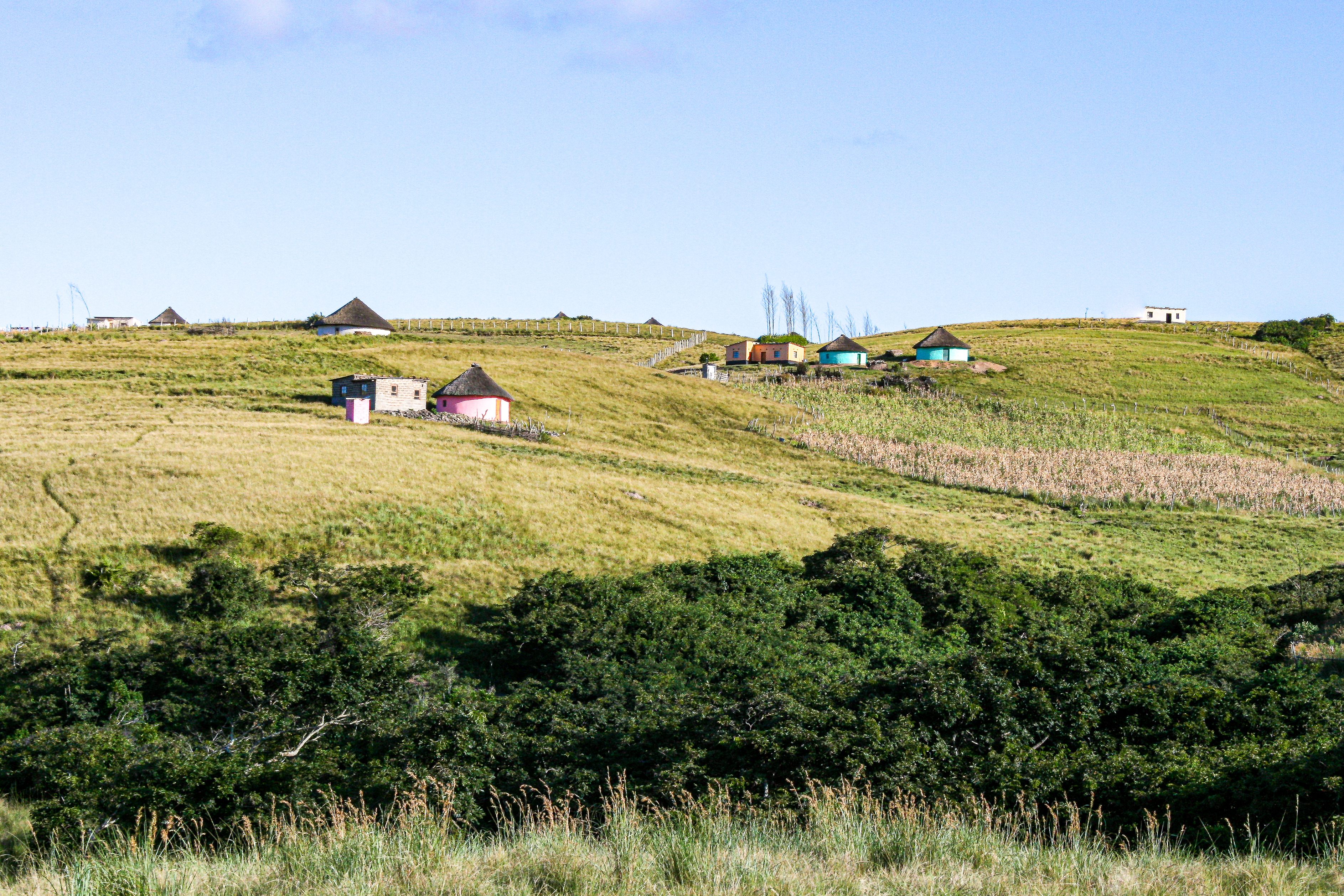 This is an image with the theme "Africa on the Move or Transport" from: South Africa